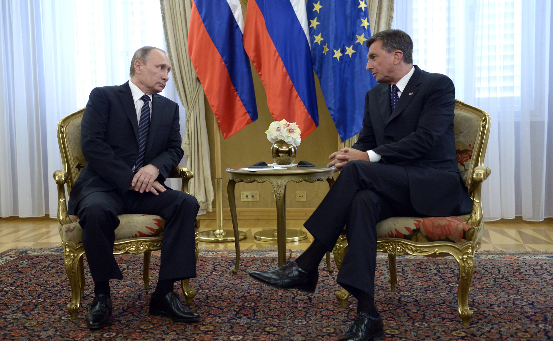 Vladimir Putin held talks with President of Slovenia Borut Pahor.